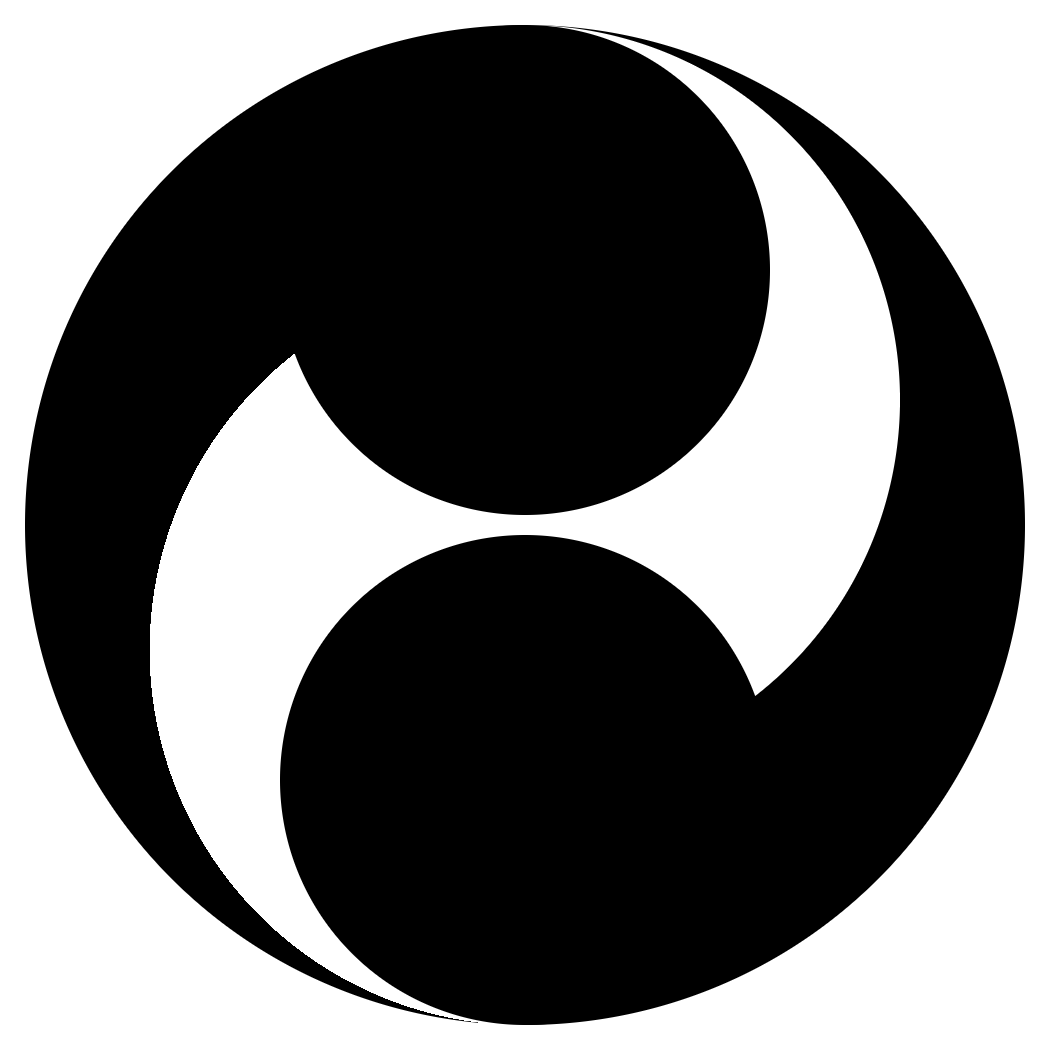 Family crest of Japan, Tomoe, Hidari-futatsu-domoe